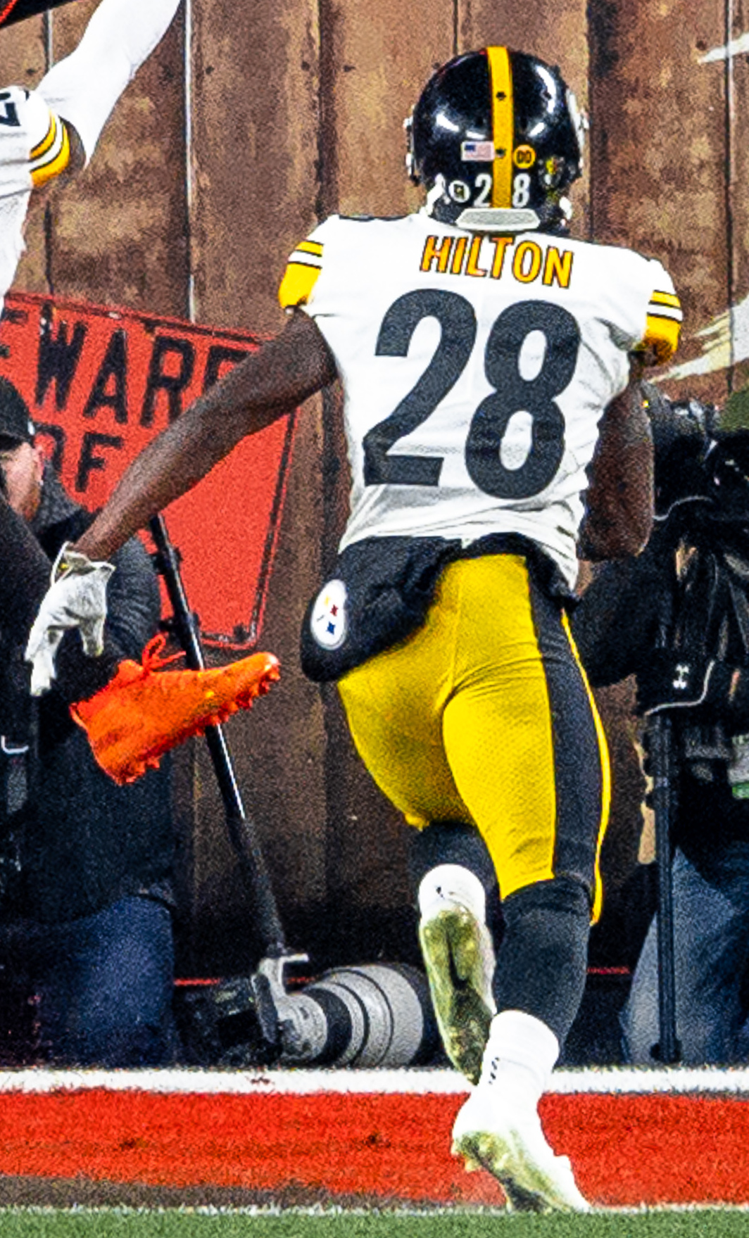 Steelers vs Browns 2019